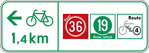 Diagram of road signs of Luxembourg